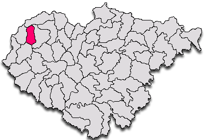 Map Salaj County Romania